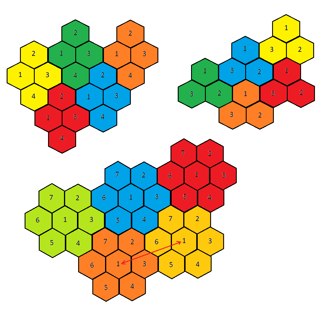 Different kind of frecuency reuse factors in cellular network.